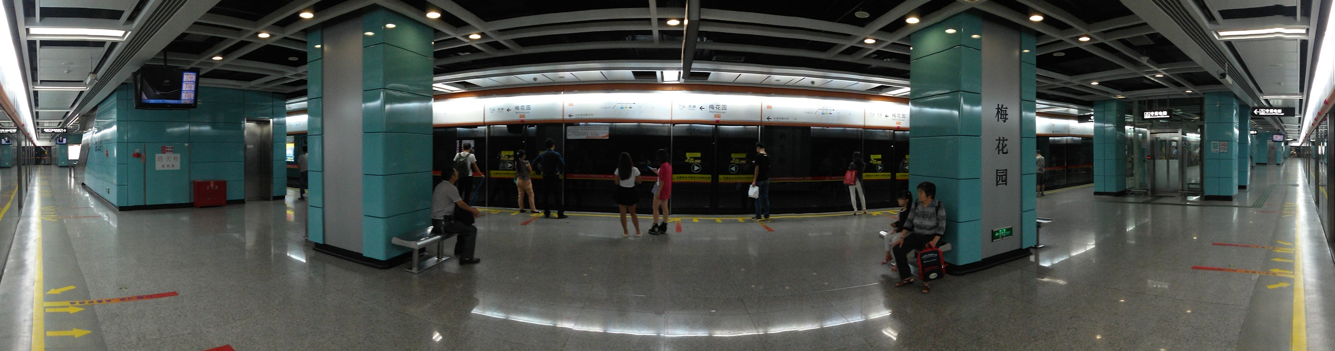 FULL SIGHT of Platform for Meihuayuan Station in Guangzhou Metro